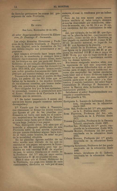 Teachers' strike in San Luis, Argentina, 1881. Letters send to Domingo F. Sarmiento by 9 teachers (Enriqueta Lucio Lucero de Lallemant, Rosario Figueroa, Tomasa Fernández, Luisa Saá, Josefina Saá, Bernabé Moreno, Urbana Moreno, Gregoria Sarmiento, y Rosario Adaro,).